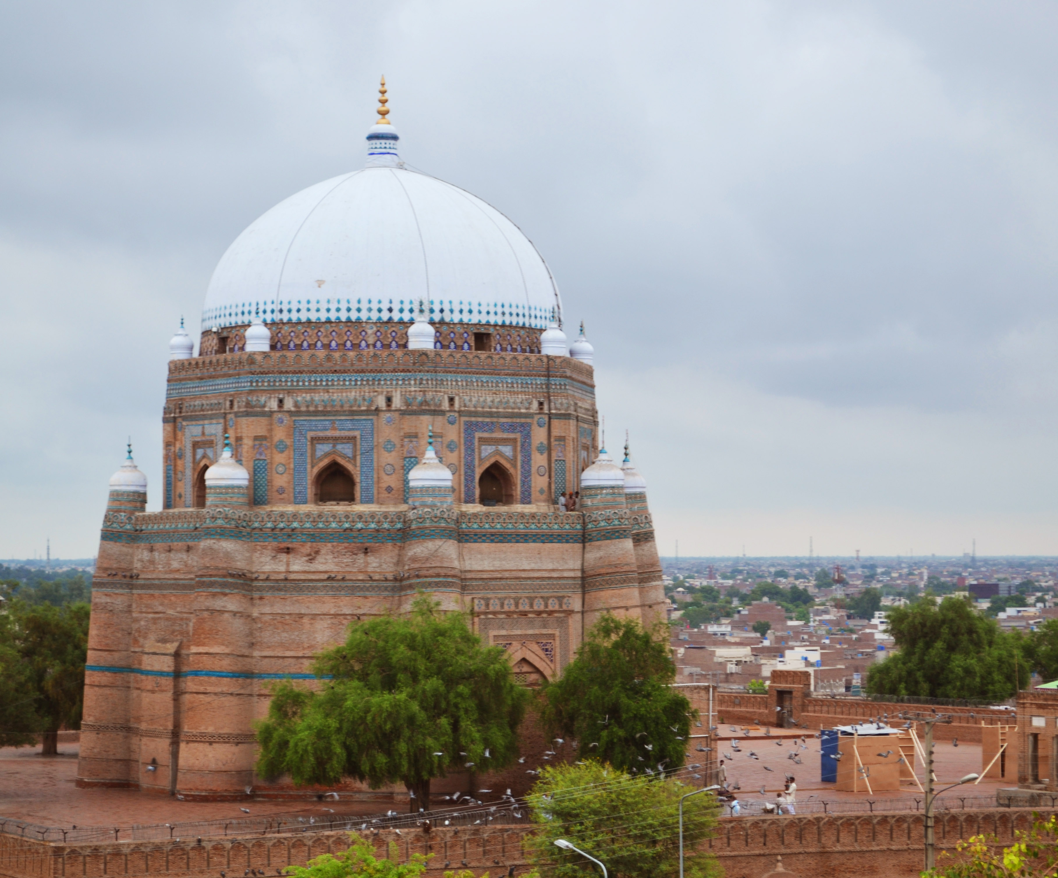 Tomb of Shah Rukn-e-Alam This is a photo of a monument in Pakistan identified as the PB-105